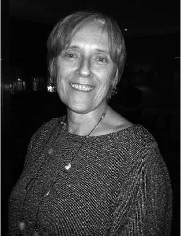 Picture by Frank Salomón